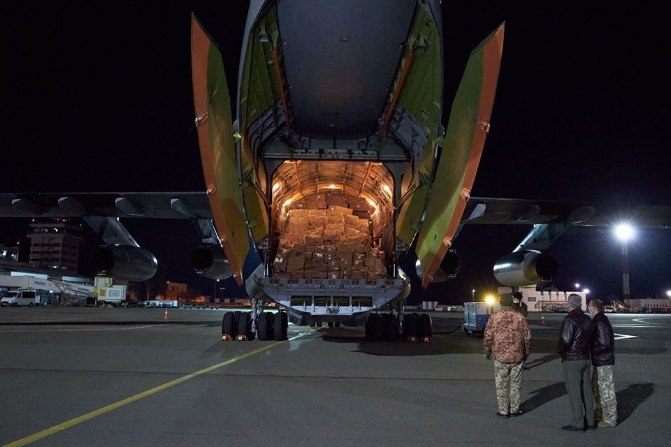 Military aircraft IL-76 of the Ukrainian Armed Forces has delivered a batch of COVID-19 tests from Chinese city Guangzhou. The military aircraft has delivered to Ukraine two types of tests: for PCR (polymerase chain reaction) and 250 thousand tests for rapid diagnostics. Moreover, different protection level medical masks, disinfectants, lung ventilation systems and other assets which are necessary to combat the spread of COVID-19 were also delivered. Once the disinfection measures are completed, the aircraft will be unloaded by the sanitation services. Medicines, including PCR tests, will be transferred to laboratories in every region of Ukraine as early as Monday. Rapid tests and medical masks will be sent for the primary needs of doctors, service personnel, police, the State Border Guard Service and others. Rapid tests will be used by emergency teams to test people with fever and suspected coronavirus diseases. In case of a positive test result, doctors should take an additional sample to confirm it in the laboratory using a PCR test.